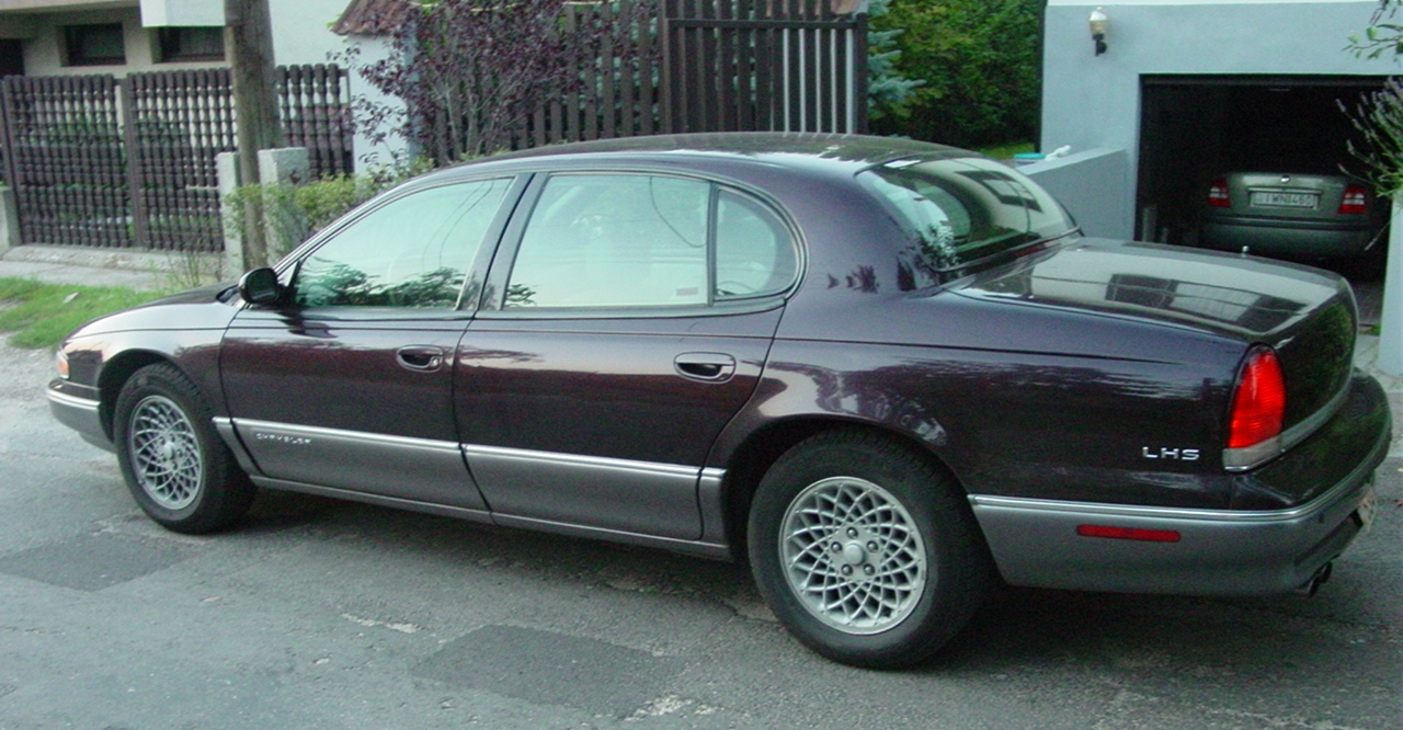 Chrysler LHS in Hungary